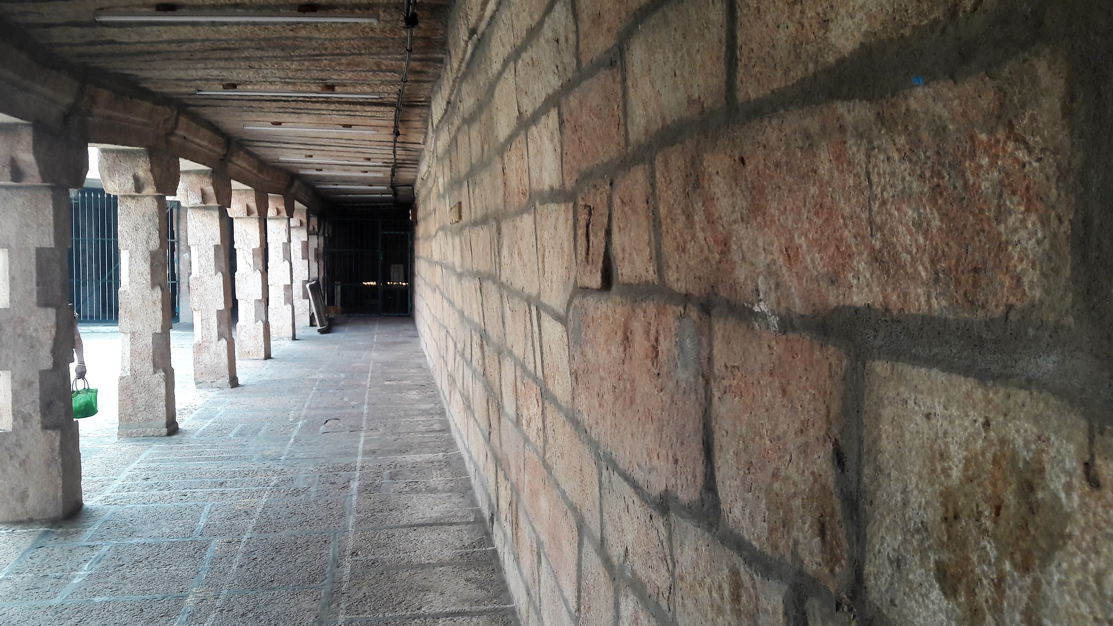 Thiruthankal Ninra Narayana Perumal